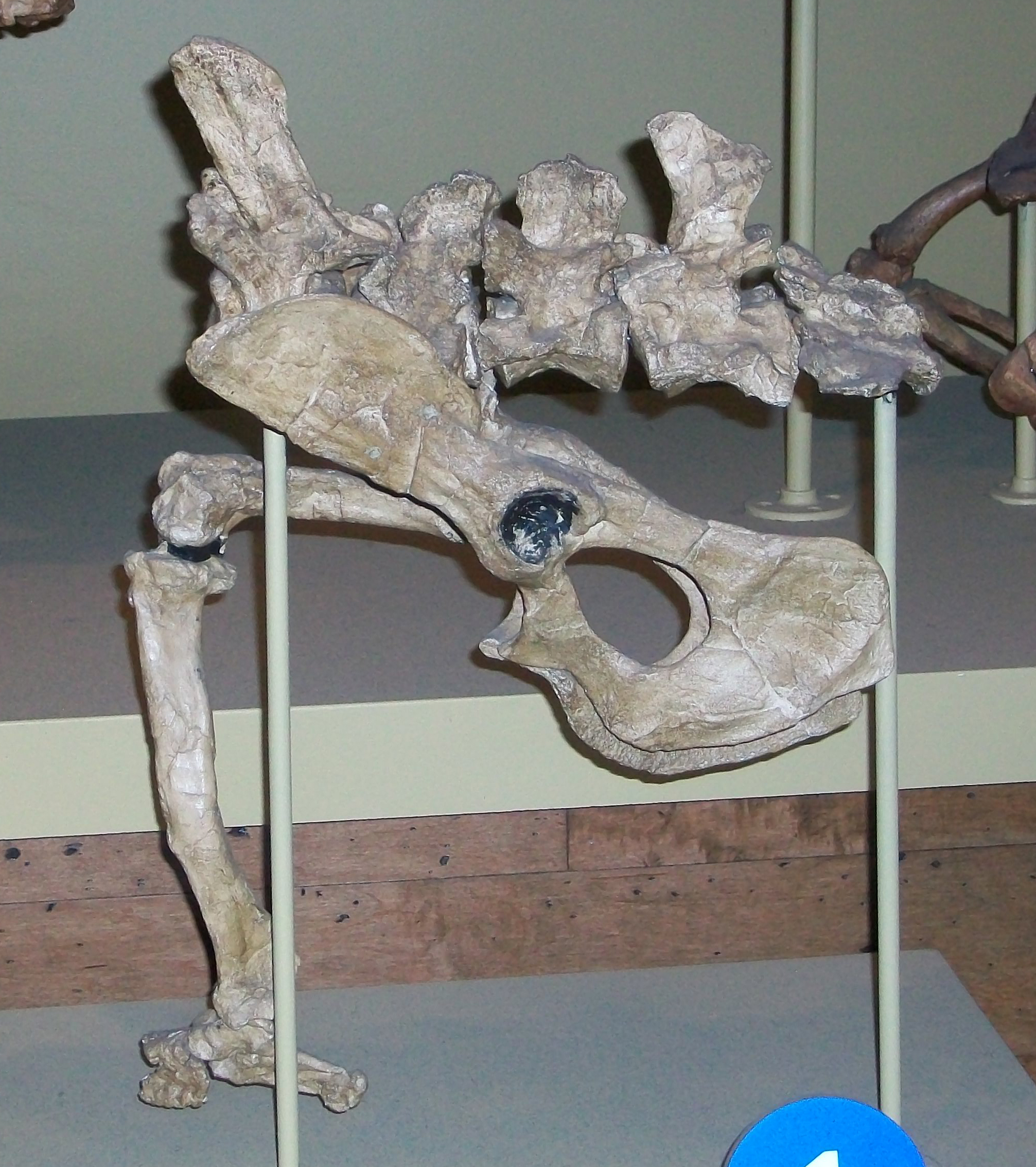 Pelvis, hind limb, and vertebrae of Rodhocetus sp. in the Field Museum of Natural History.